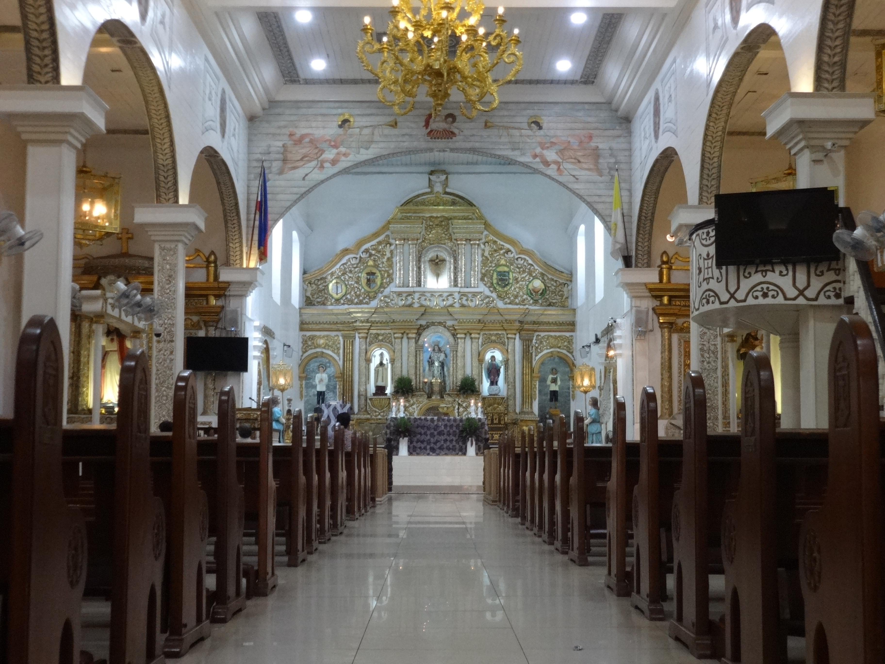 Interior of Our Lady of Mount Carmel Parish (Barasoain Church) at Paseo Del Congreso, Malolos, Bulacan. The church is historically important for being the site of Malolos Congress in 1898. The church is under the Roman Catholic Diocese of Malolos, Archdiocese of manila.